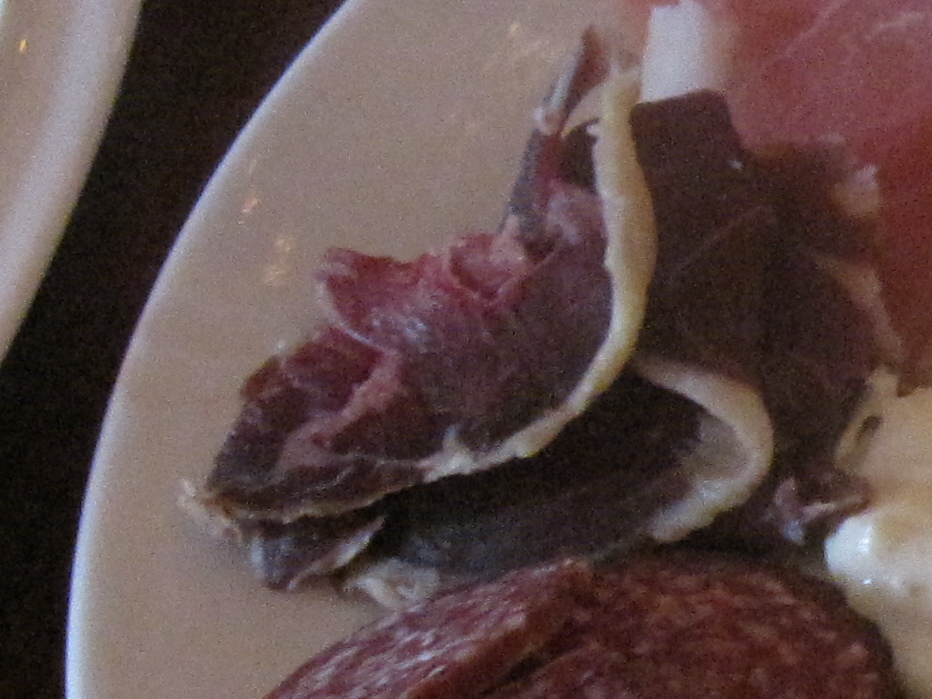 Fenalår - norwegian cured meat of sheep.